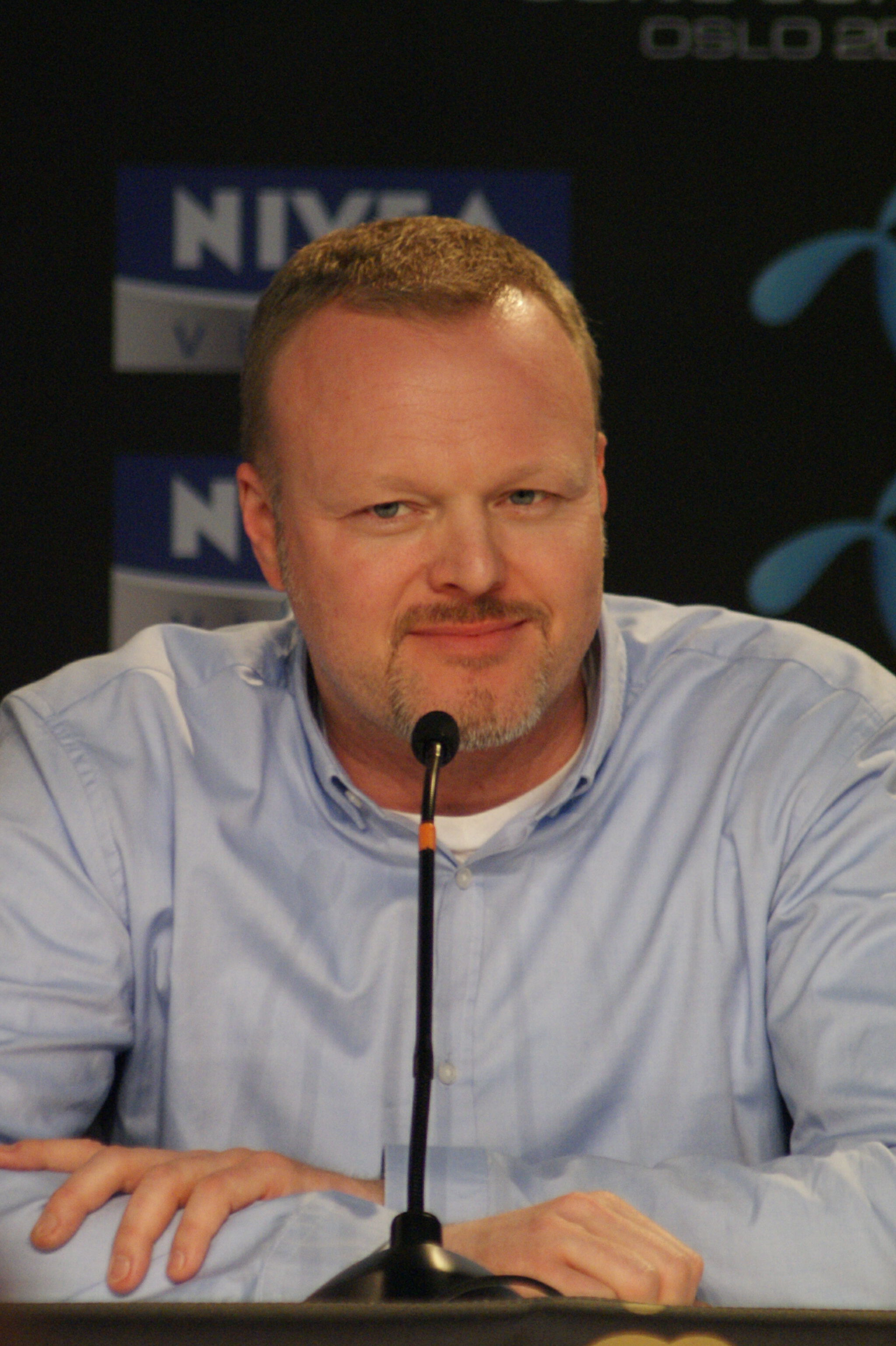 Stefan Raab at a Eurovision Song Contest 2010 press conference